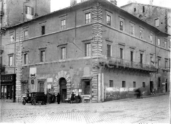 Palazzo Alicorni in Rome before its restoration in 1928